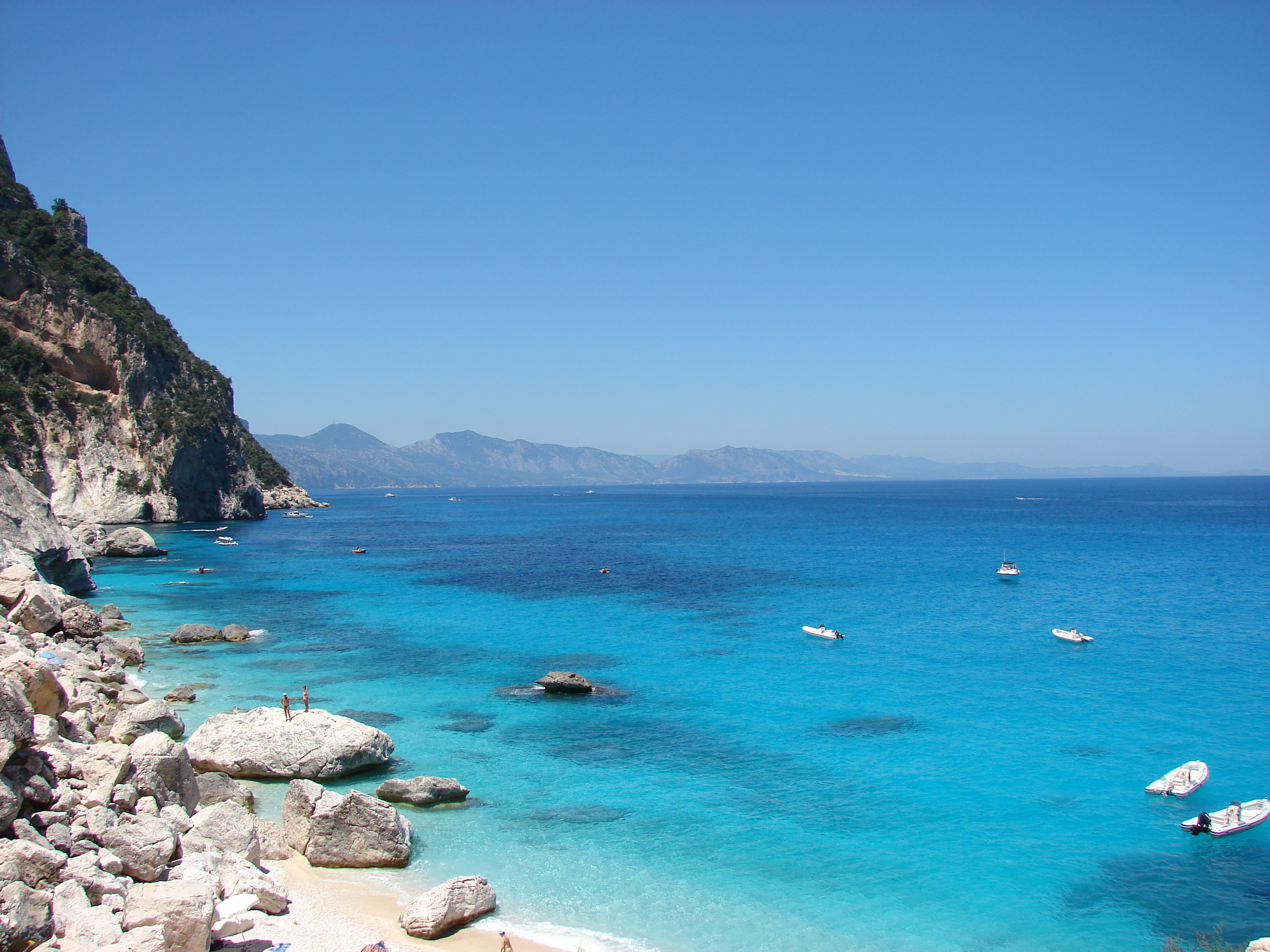 cala goloritzè sardinia east coast gennargentu and gulf of orosei national park supramonte